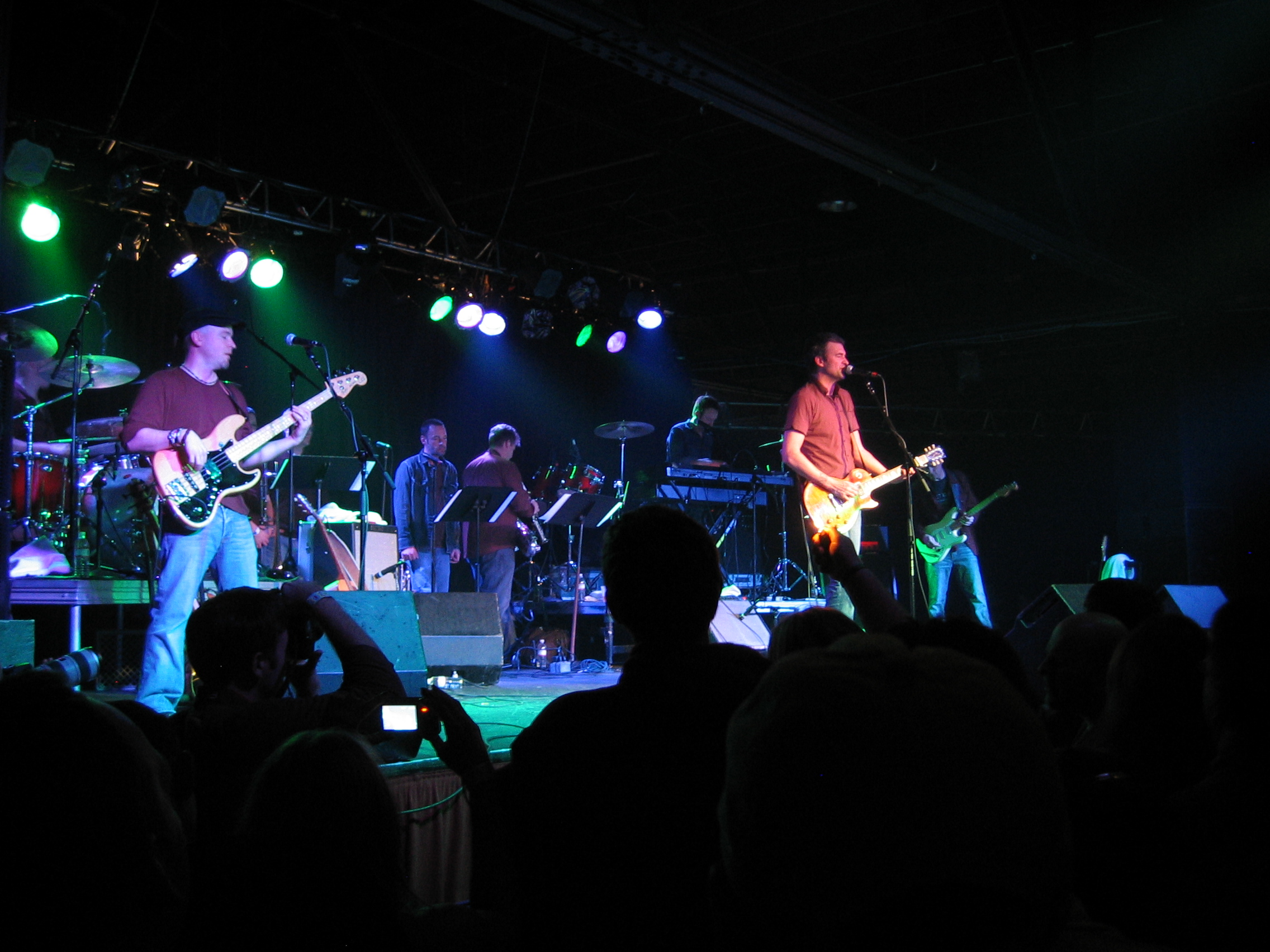 The Verve Pipe at the Intersection in Grand Rapids, MI.